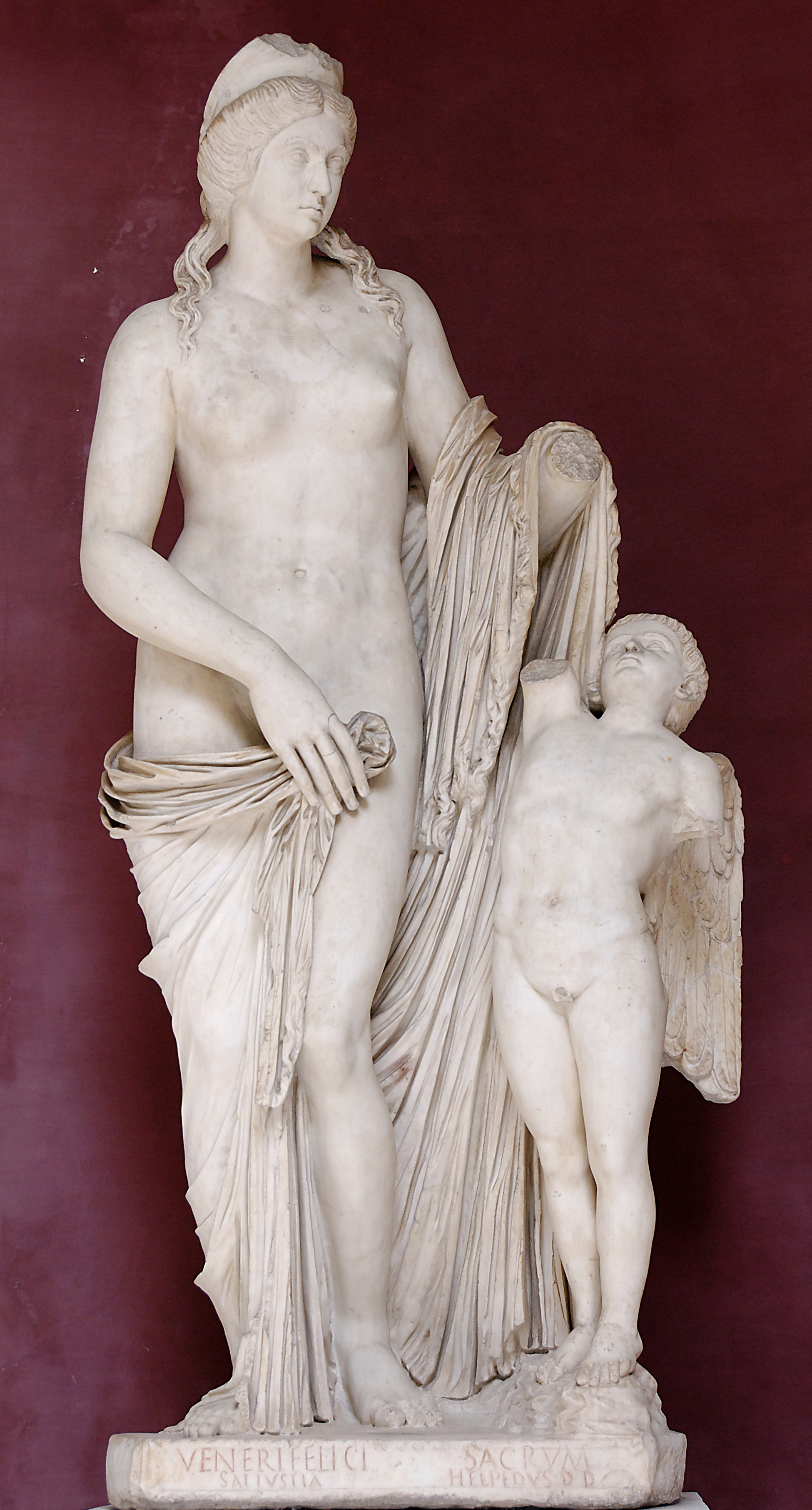 So-called “Venus Felix”, type of the Cnidian Venus, with a head resembling Faustina the Younger. Incsription on the plinth: "Veneri Felici sacrum Sallustia Helpidus d. d." (dedicated by Sallustia and Helpidus to Venus Felix). Marble, Roman copy ca. 180–200 AD after a Greek original.